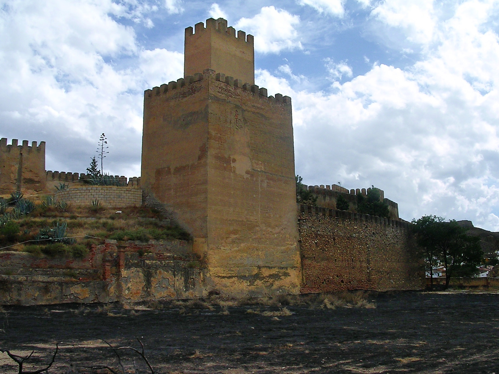 Granada, Spain